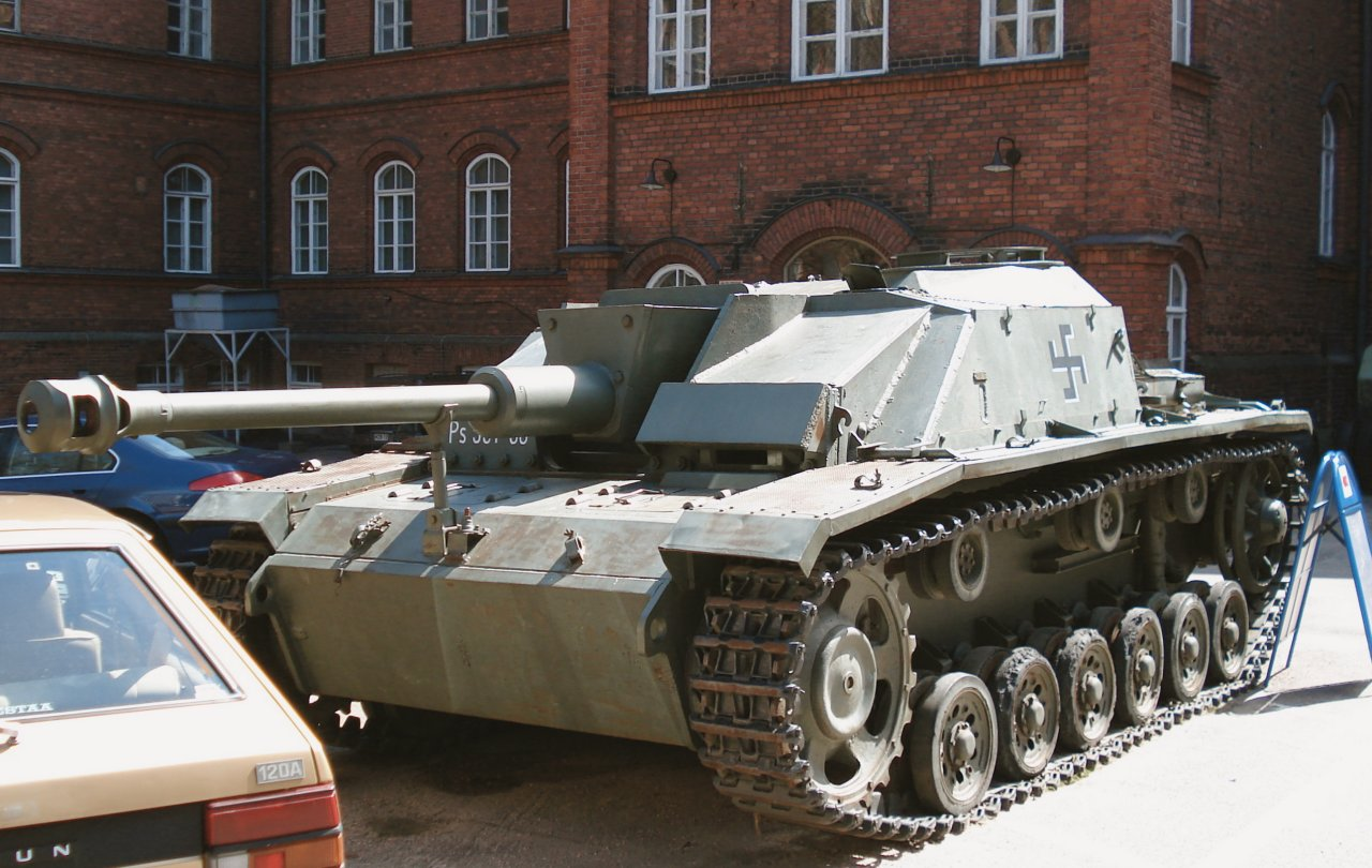 Stug III exhibited outdoors in the parking lot of the Military Museum (Sotamuseo) in Helsinki.